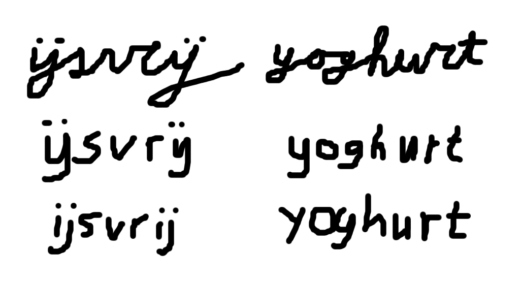 Similarity between Dutch manuscript "ij" and "y".